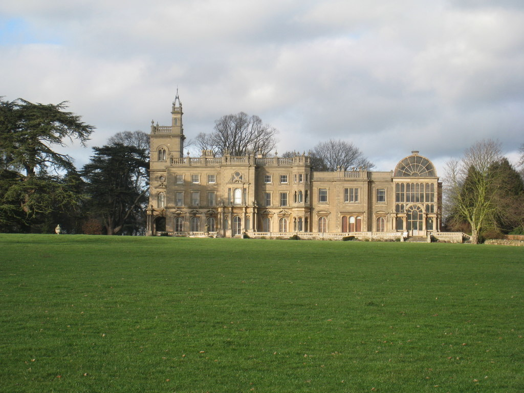 Flintham Hall. Flintham Hall featured as the home of the 'master blackmailer' in the tv episode "The Master Blackmailer" (1992) from the series The Case-Book of Sherlock Holmes.